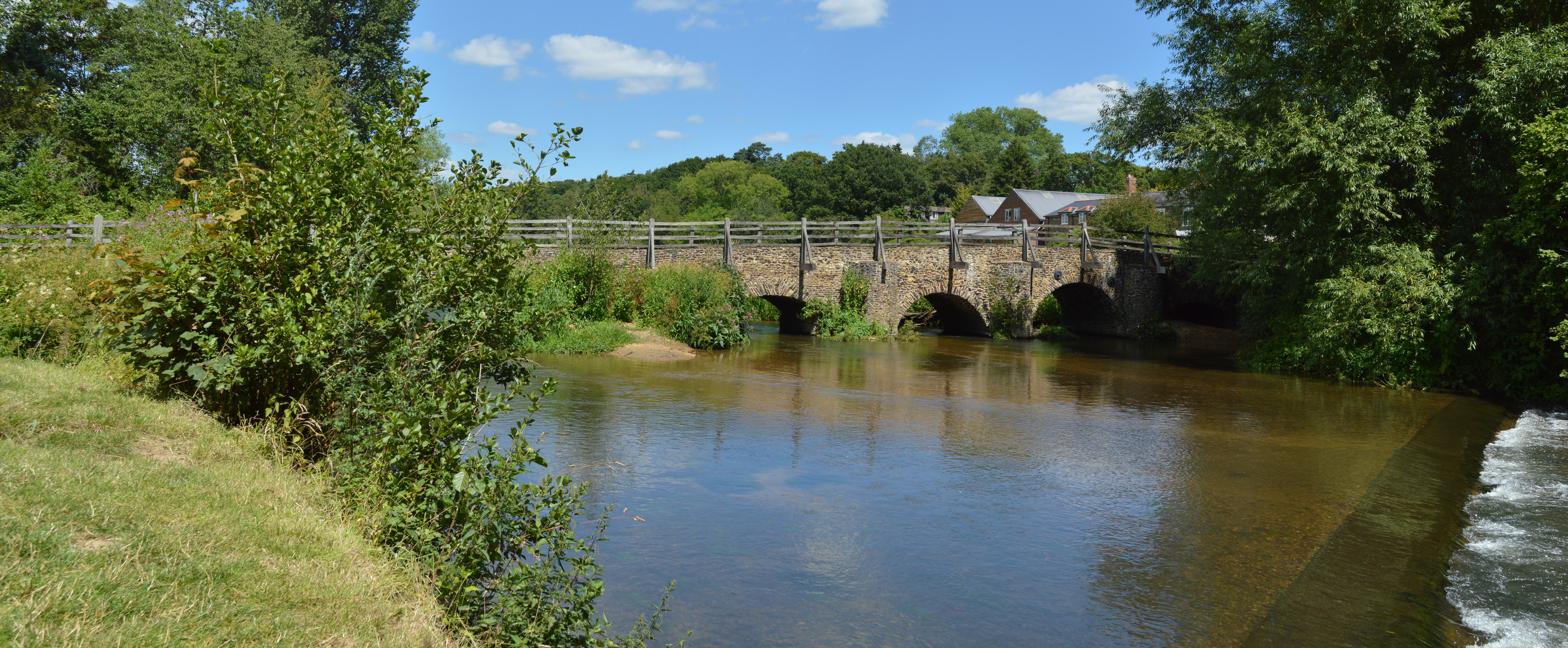 Bridge over the River Wey to North-east side of green, Tilford Wikidata has entry Q17527807 with data related to this building.